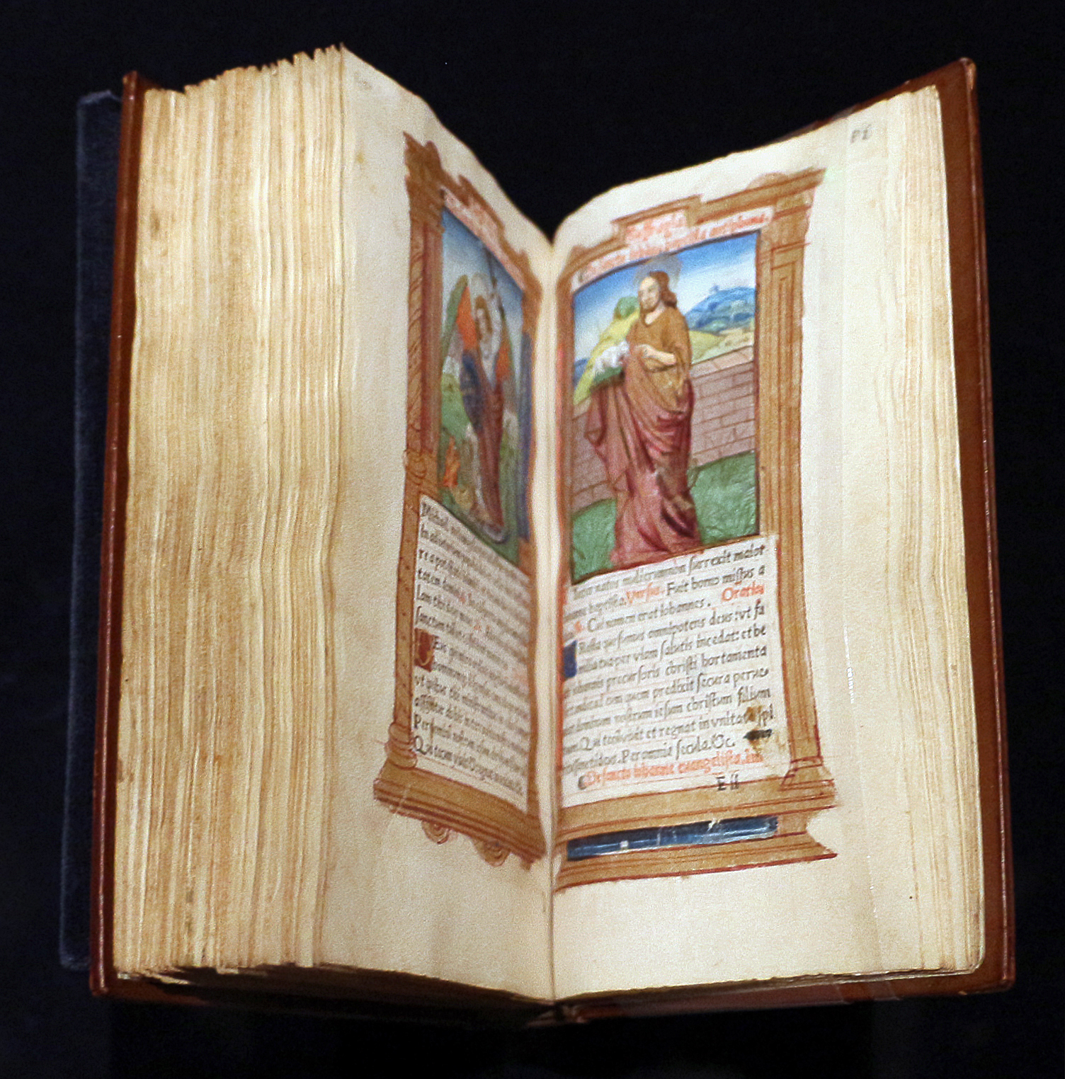 European art in the Cleveland Museum of Art